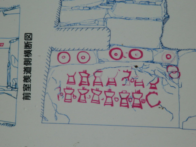 Petrograph of Shgesada Kofun in Fukuoka prefecture.